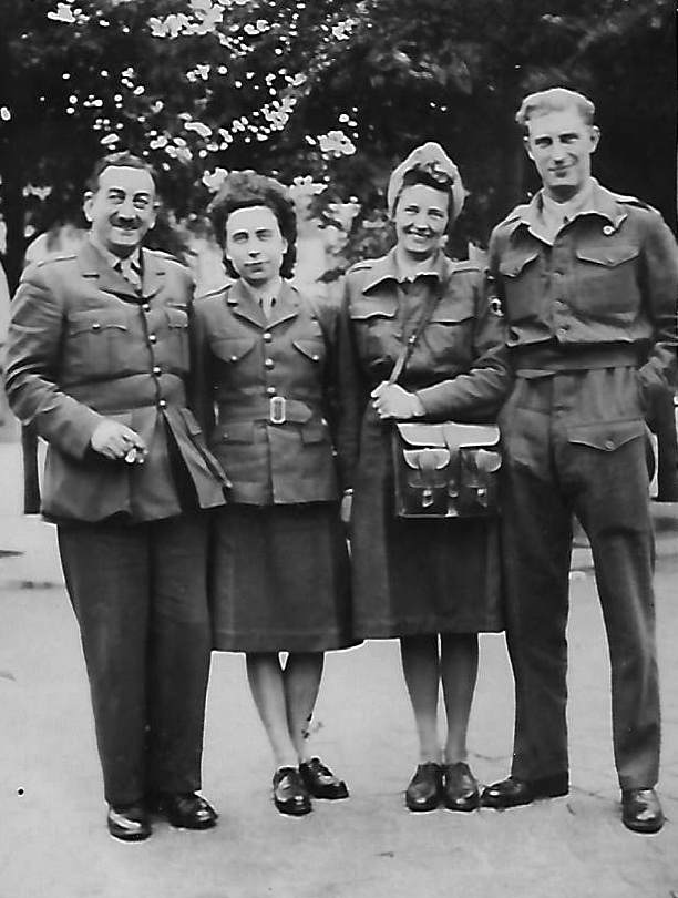 Photograph of Simon Bloomberg UNRRA Director of the Bergen-Belsen Displaced Peoples Camp in Germany in 1946.